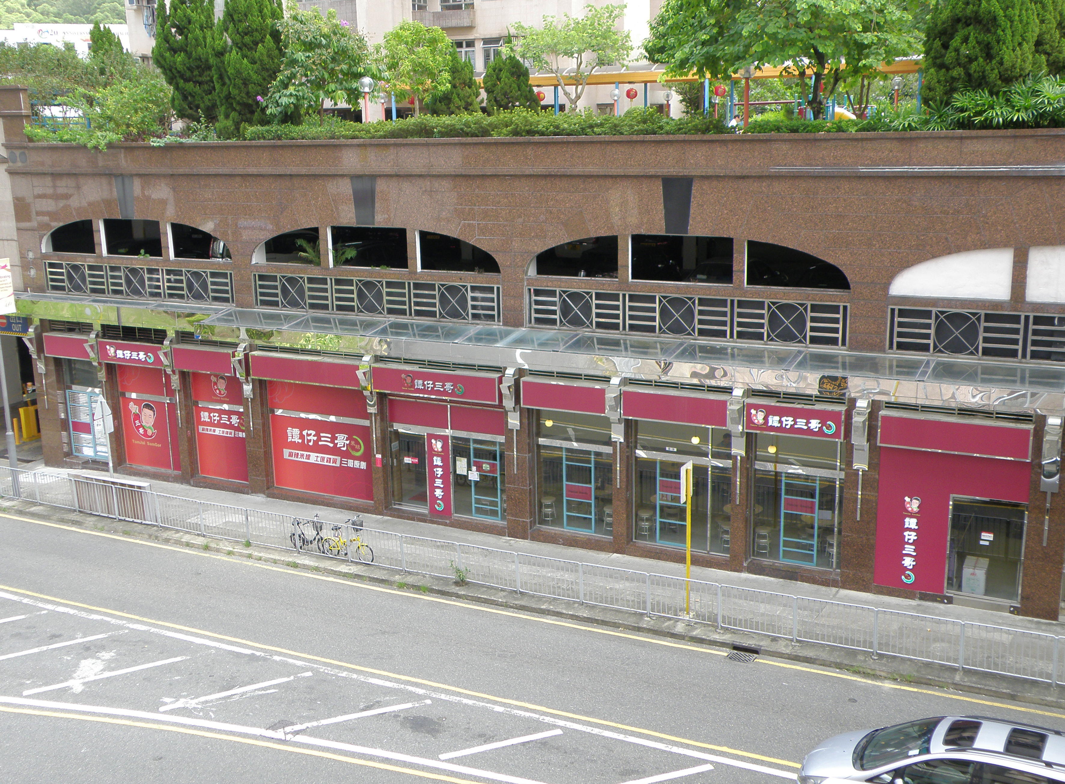 TamJai SamGor in Hong Kong.